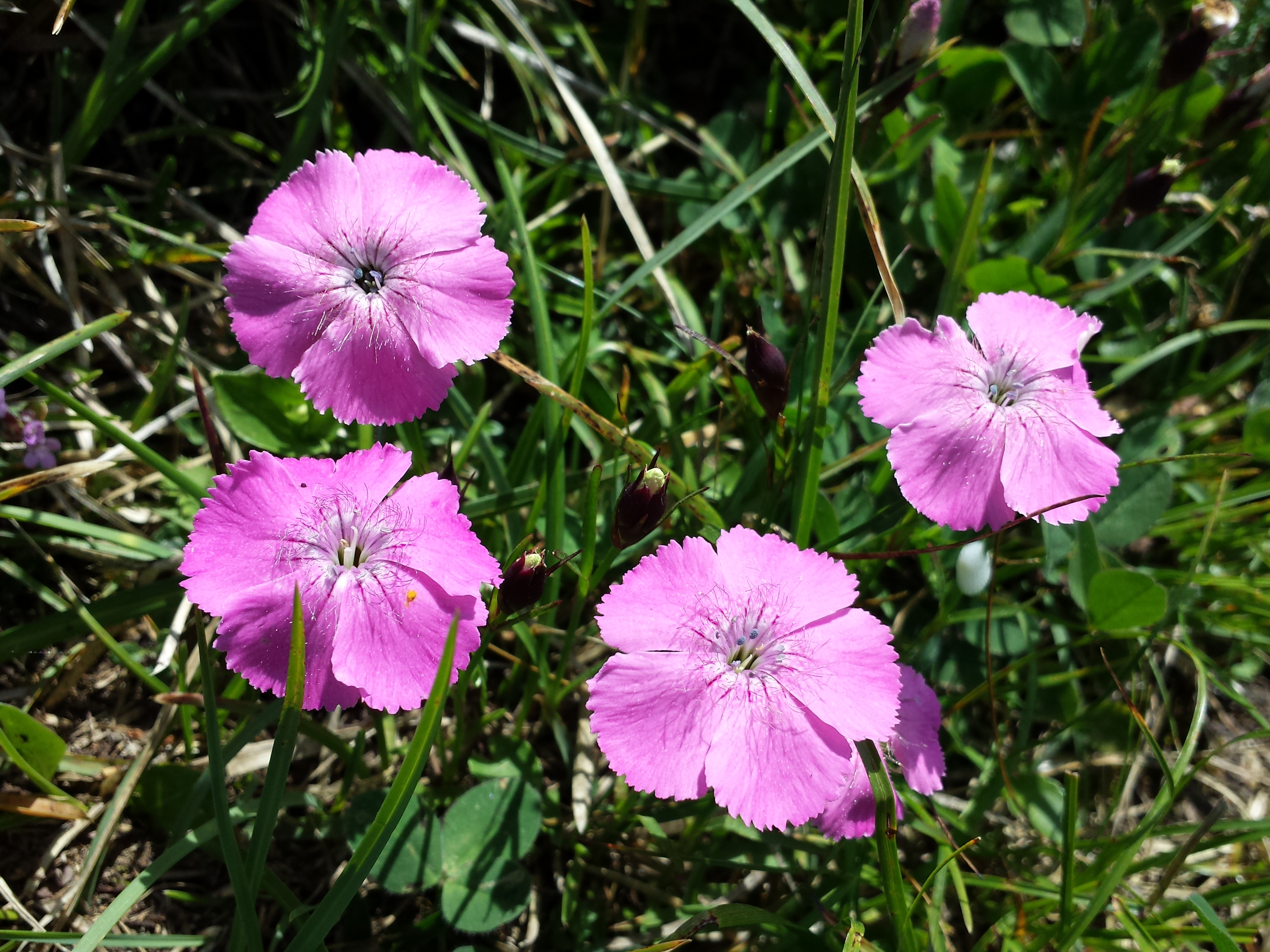 Habitus Taxonym: Dianthus alpinus ss Fischer et al. EfÖLS 2008 ISBN 978-3-85474-187-9 Location: Ötscher, district Scheibbs, Lower Austria - ca. 1500 m a.s.l. Habitat: alpine meadows